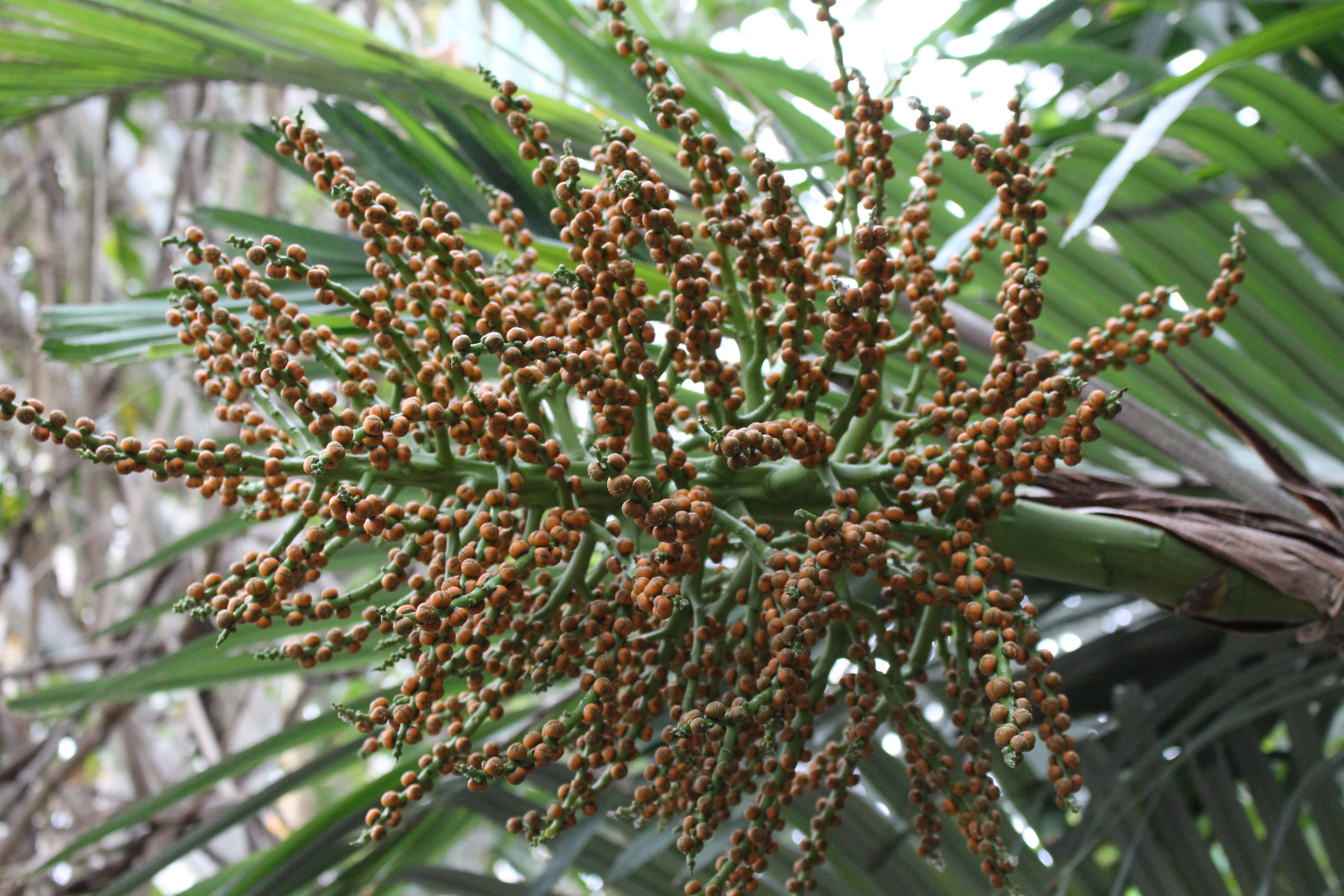 Ripe fruits of an individual Arenga engleri in the Botanic Garden in München, Germany